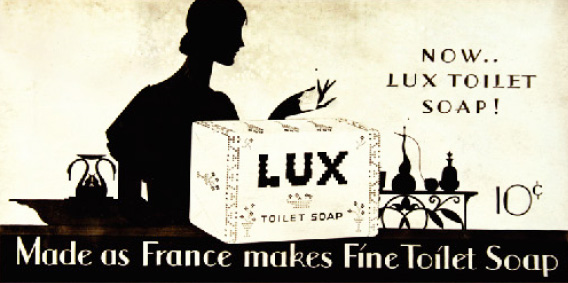 Lux - Building beauty soap credentials